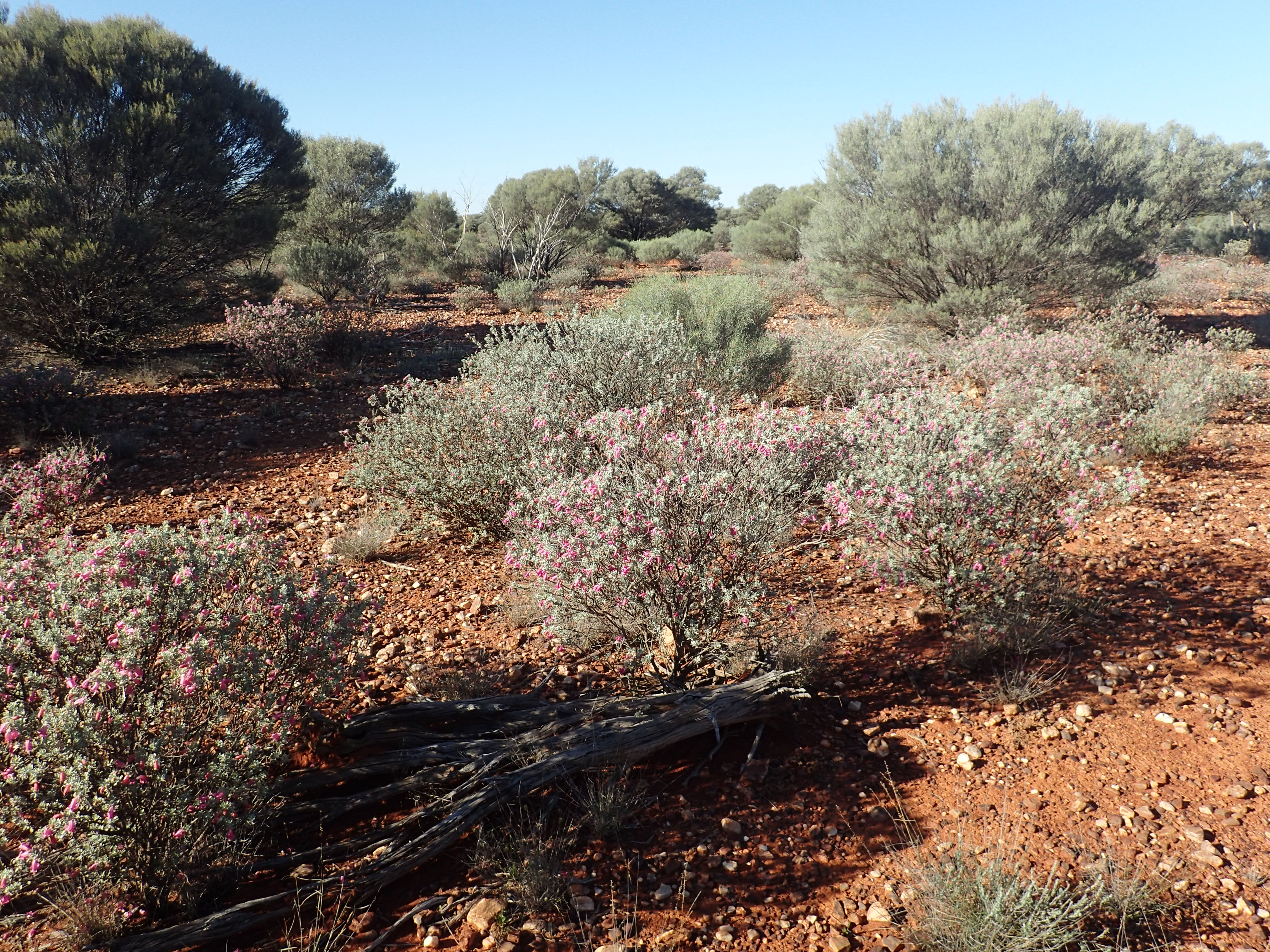 Eremophila glandulifera 17 km along the Old Agnew Road